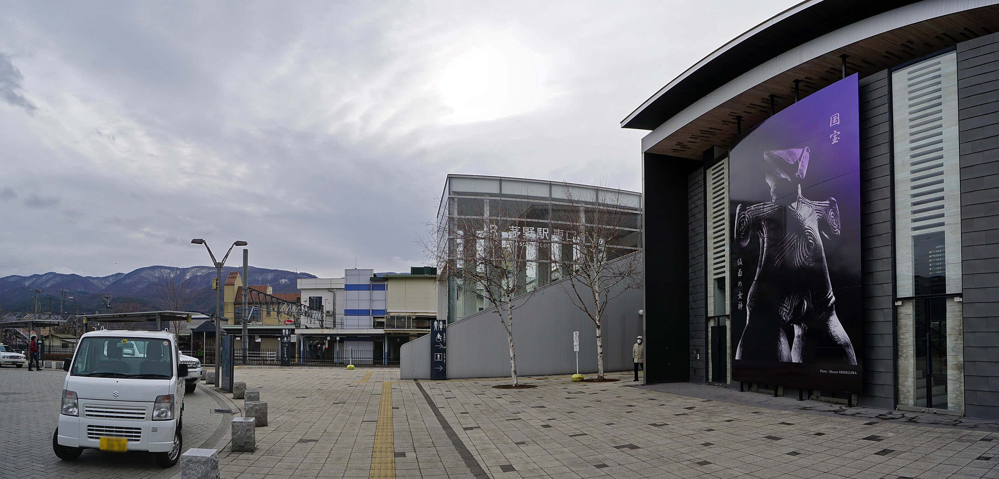 JR Chino station , JR 茅野駅